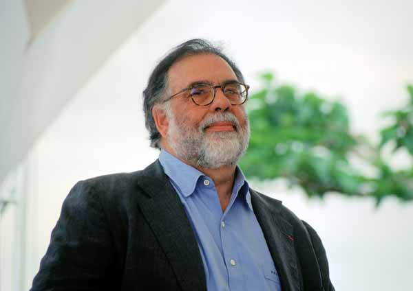 Coppola Francis Ford at Cannes in 2001. My own picture. Created by Rita Molnár 2001.